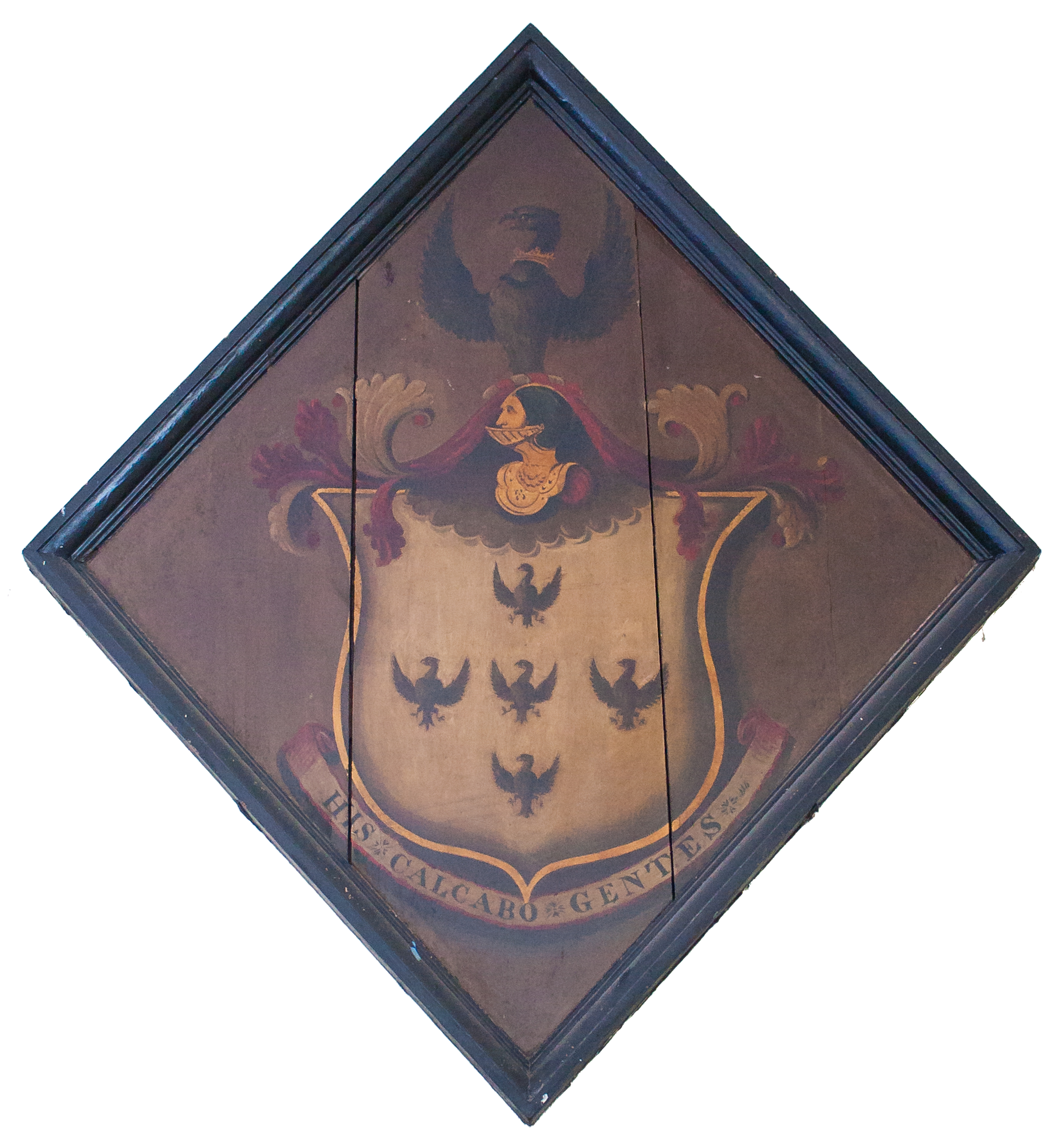 Coat of arms of the Colclough Family at the north wall. Motto: his calcabo gentes. Blazon: Argent, five eaglets displayed in cross sable. (See Arthur Charles Fox-Davies, Armorial families: a directory of gentlemen of coat-armour, p. 153.)